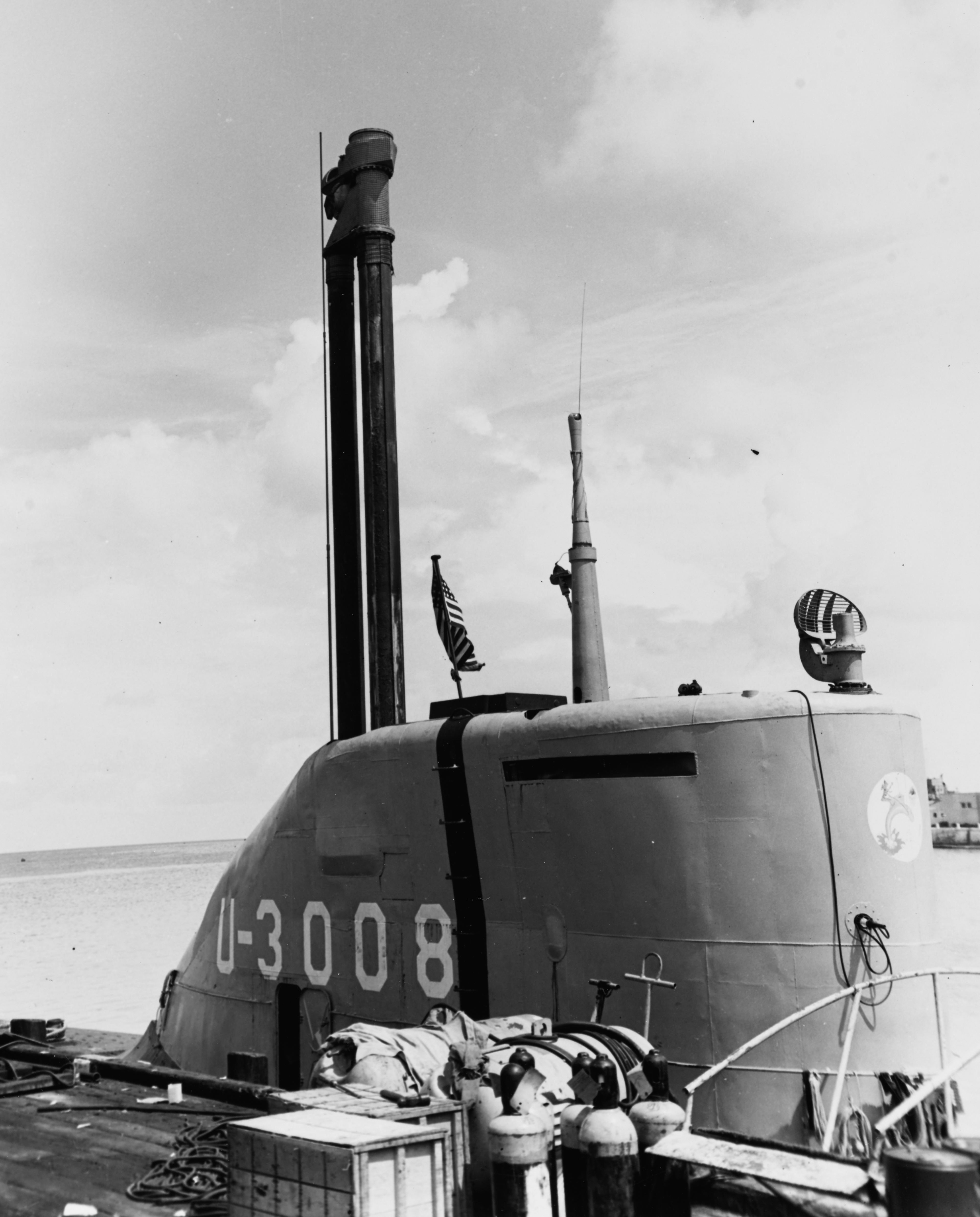 USS U-3008 (ex-German submarine U-3008) View of the submarine's conning tower, with her snorkel raised. Taken at Key West Naval Station, Florida Note her insignia painted on the front of the conning tower.